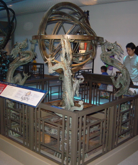 A Chinese Armillary Sphere. This picture was taken in July 2004 from an exhibition at Chabot Space & Science Center in Oakland, California. Kowloonese --- This appears to me to be the armillary sphere that resides in the National Museum of Science and Technology in Taichung, Taiwan. -- Dominus 16:12, 16 Jun 2005 (UTC) I guess there are many replicas of this armillary sphere. This copy was on display in a road show in California. The exhibition lasted a few months and was organised by some organization from mainland China. Obviously they didn't take it from Taichung. Kowloonese 19:35, Jun 16, 2005 (UTC)